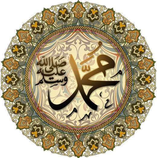 The name of the great prophet Mohamed